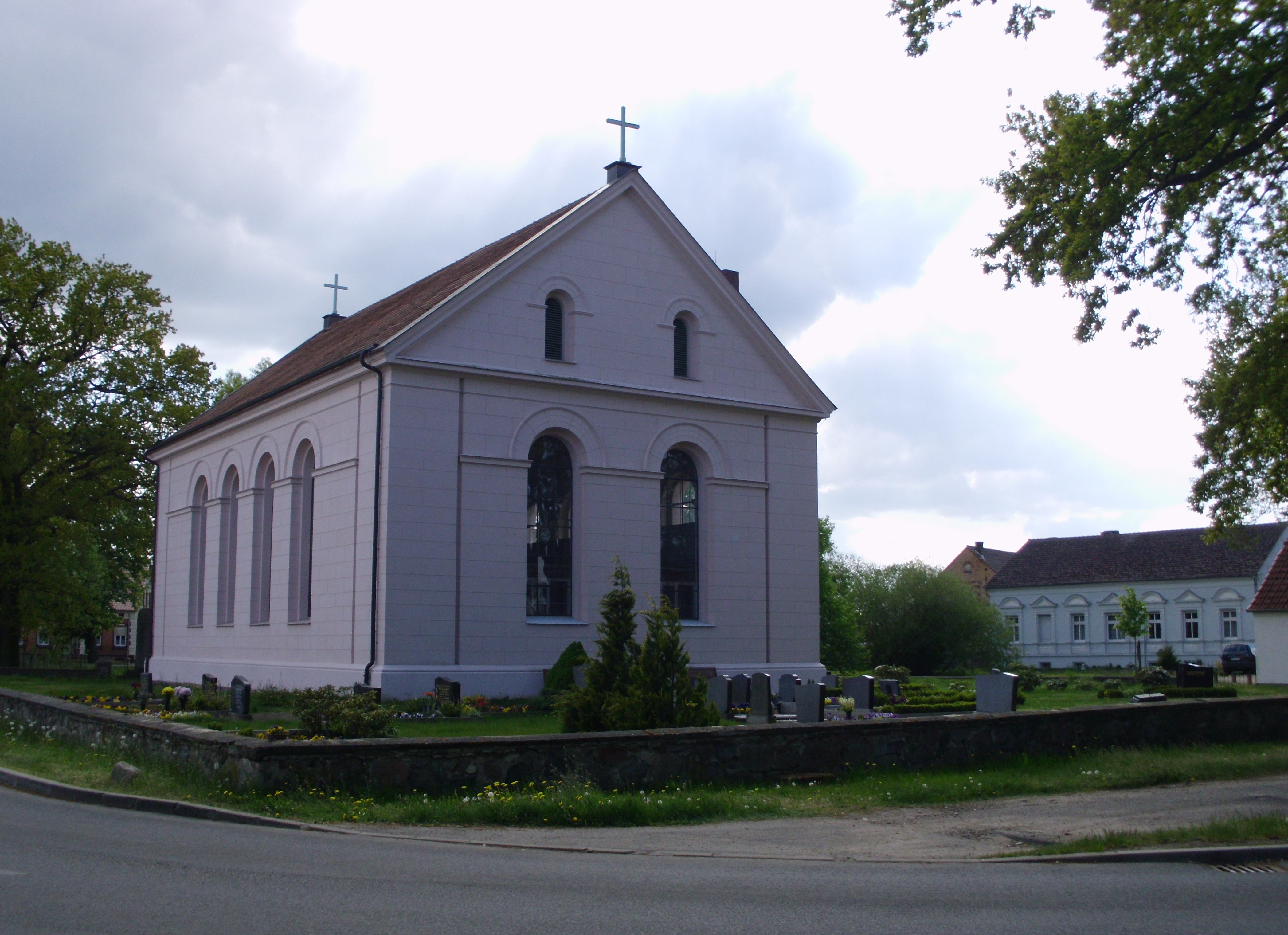 Krangen church, Neuruppin city, Ostprignitz-Ruppin district, Brandenburg state, Germany